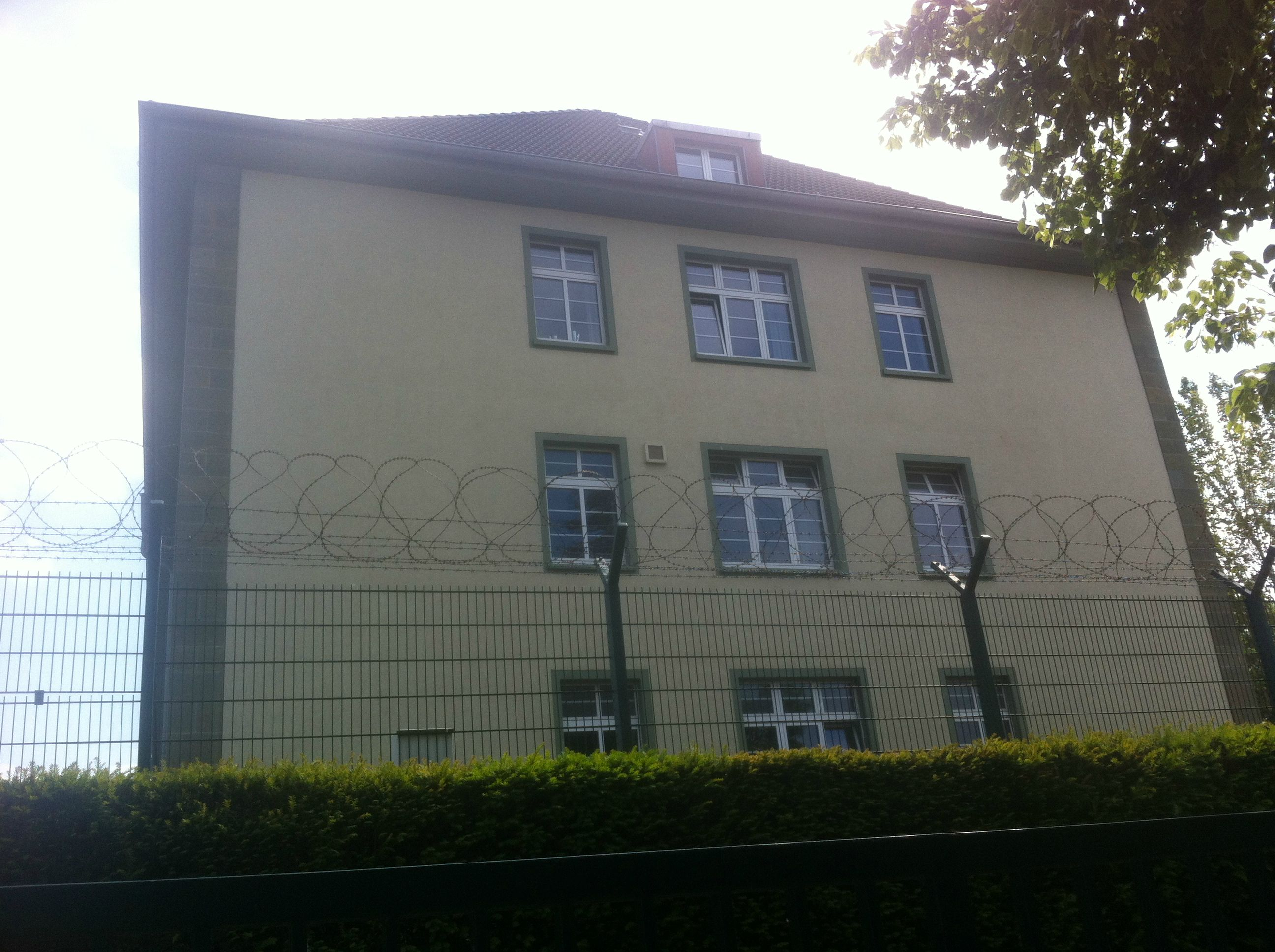 This part of germany, call it "bloody island", is posessed by BRITISHFORCES.